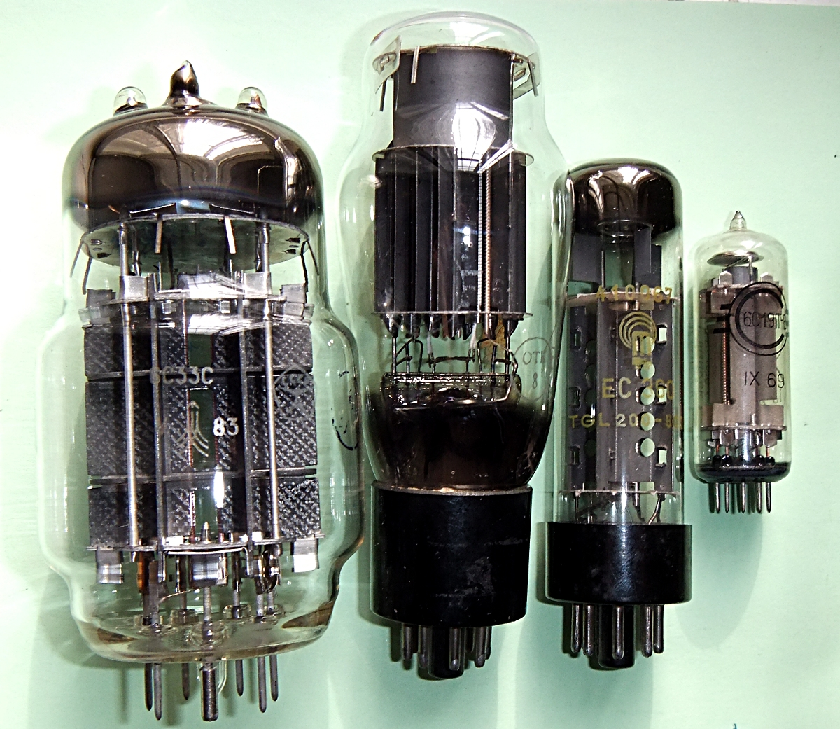 Triodes for serial voltage stabilization circuits (6S33S, 6N13S, EC360, 6S19P).